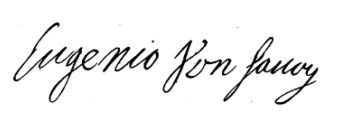 Signature of Eugene of Savoy (1663-1736)